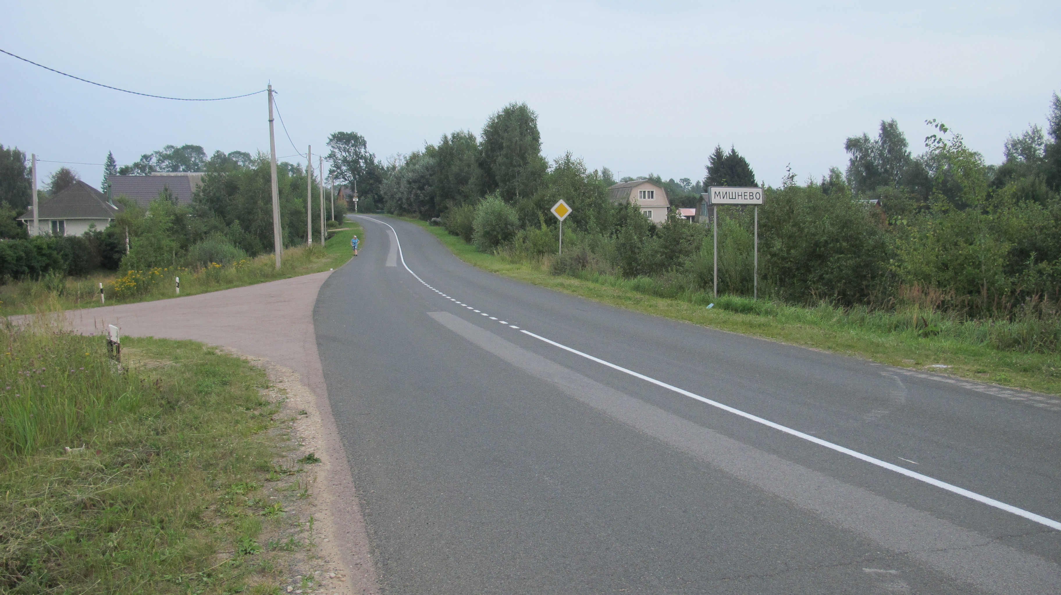 Mishnevo (Klinsky District) 2016-07-31